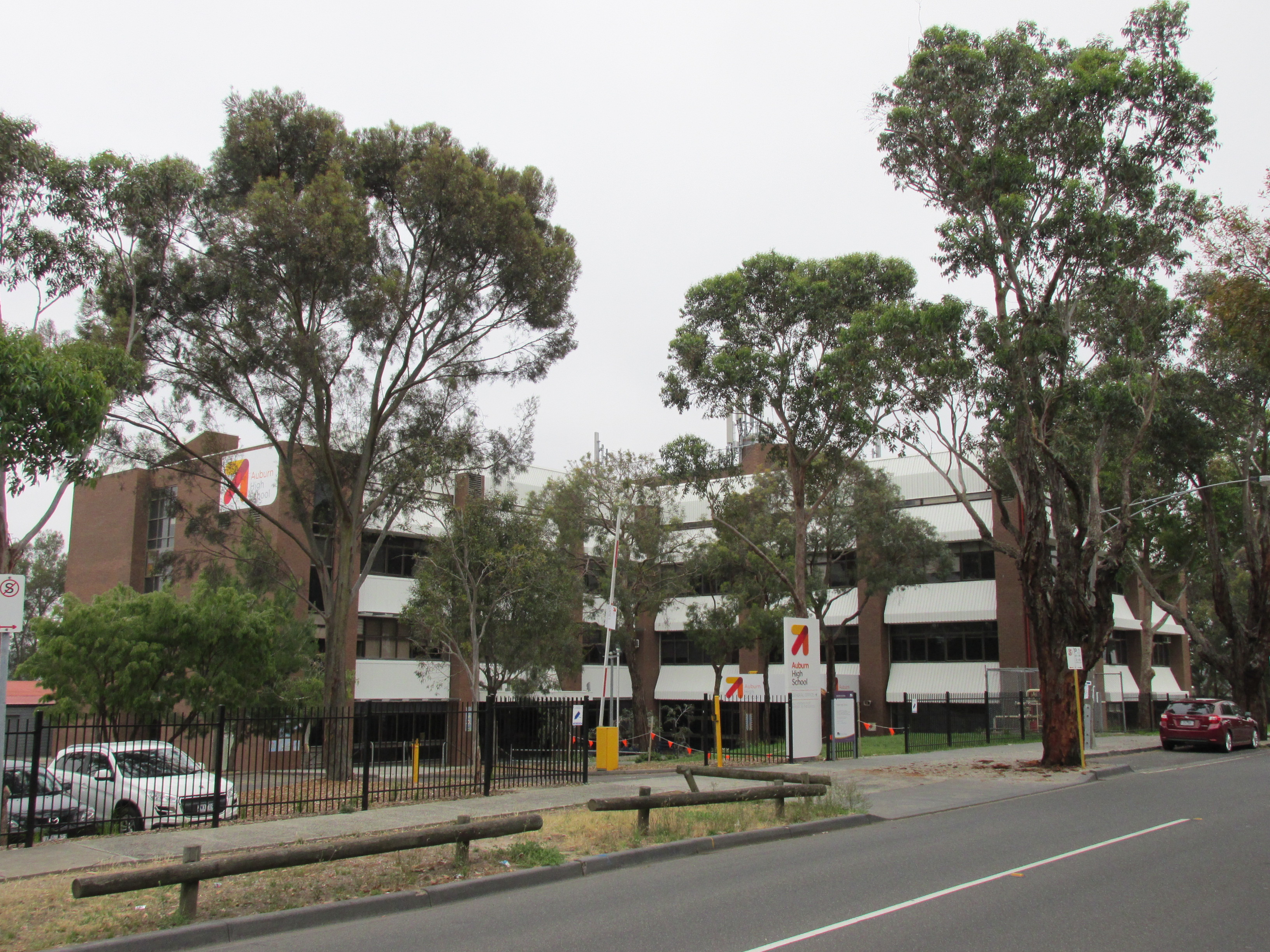 Auburn High School (formerly Hawthorn Secondary), a state high school in Hawthorn East, Victoria.